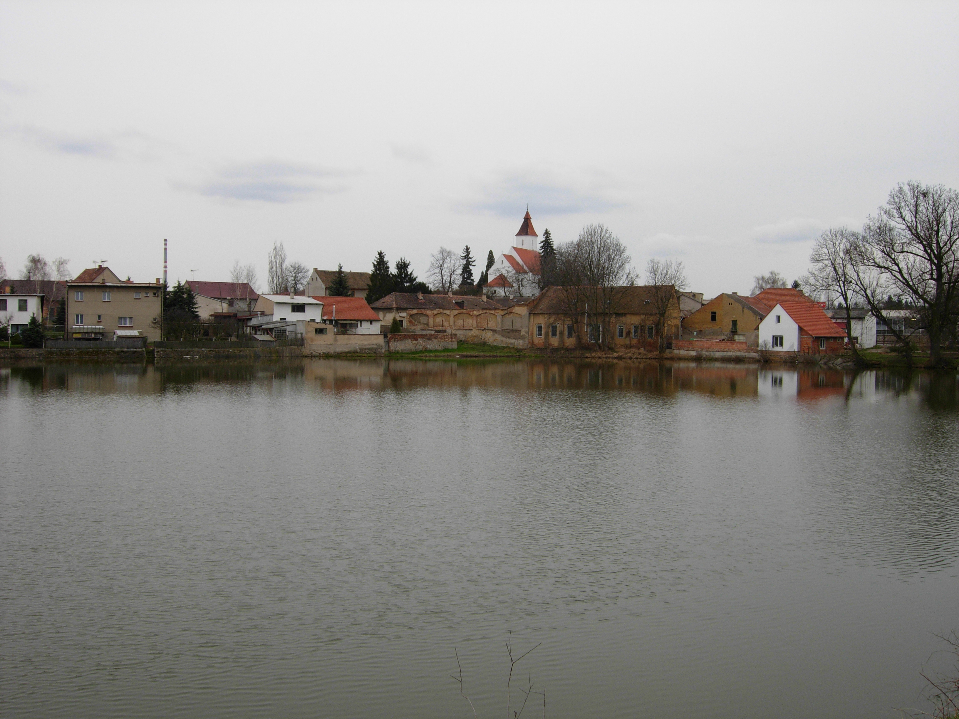 Pond in Hovorčovice.